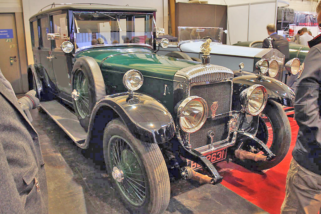 This photo was taken on April 11, 2011 in Heide, Essen, NW, DE.